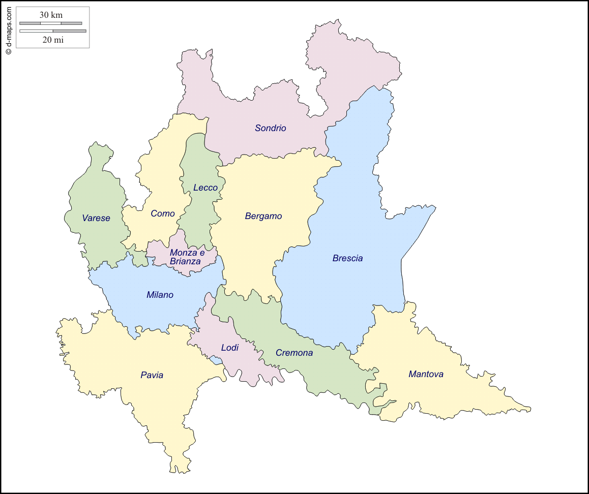 Map showing the provinces of the region of Lombardy, Italy.